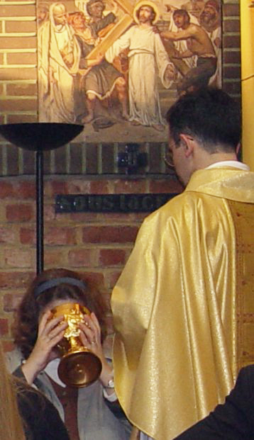 A woman drinking from a chalice during a Eucharist ritual.